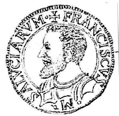 Coin of Francesco of Saluzzo (reigned 1529-1537)